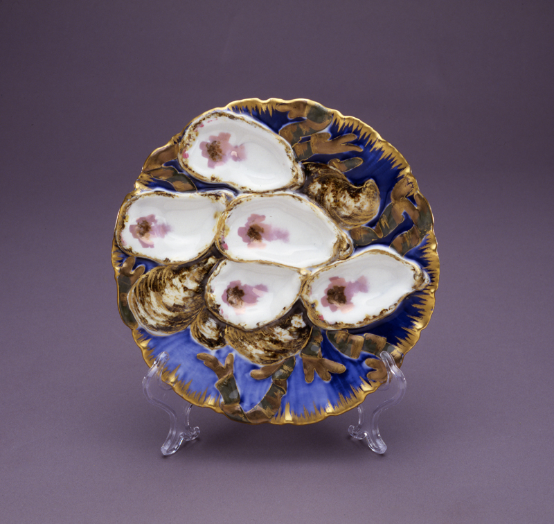 Oyster plate purchased in 1877 by the administration of President Rutherford B. Hayes, and used in the White House in Washington, D.C., in the United Stats. First Lady Lucy Hayes wanted a new china service, and met with artist Theodore Davis in the White House conservatory to discuss a design. Inspired by the meeting site, Davis suggested hand-painted scenes depicting American wildlife, surrounded by naturalistic settings of native American plants. Hayes agreed, and the service was delivered in February 1877.